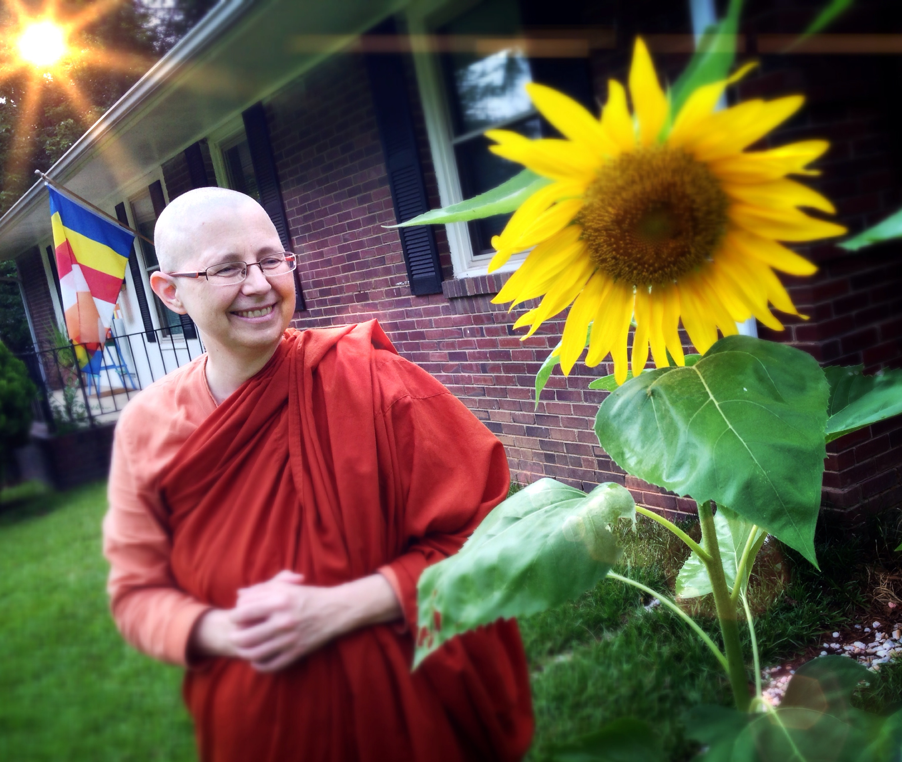 Ayya Sudhamma at the Charlotte Buddhist Vihara next to Sunflower plant.